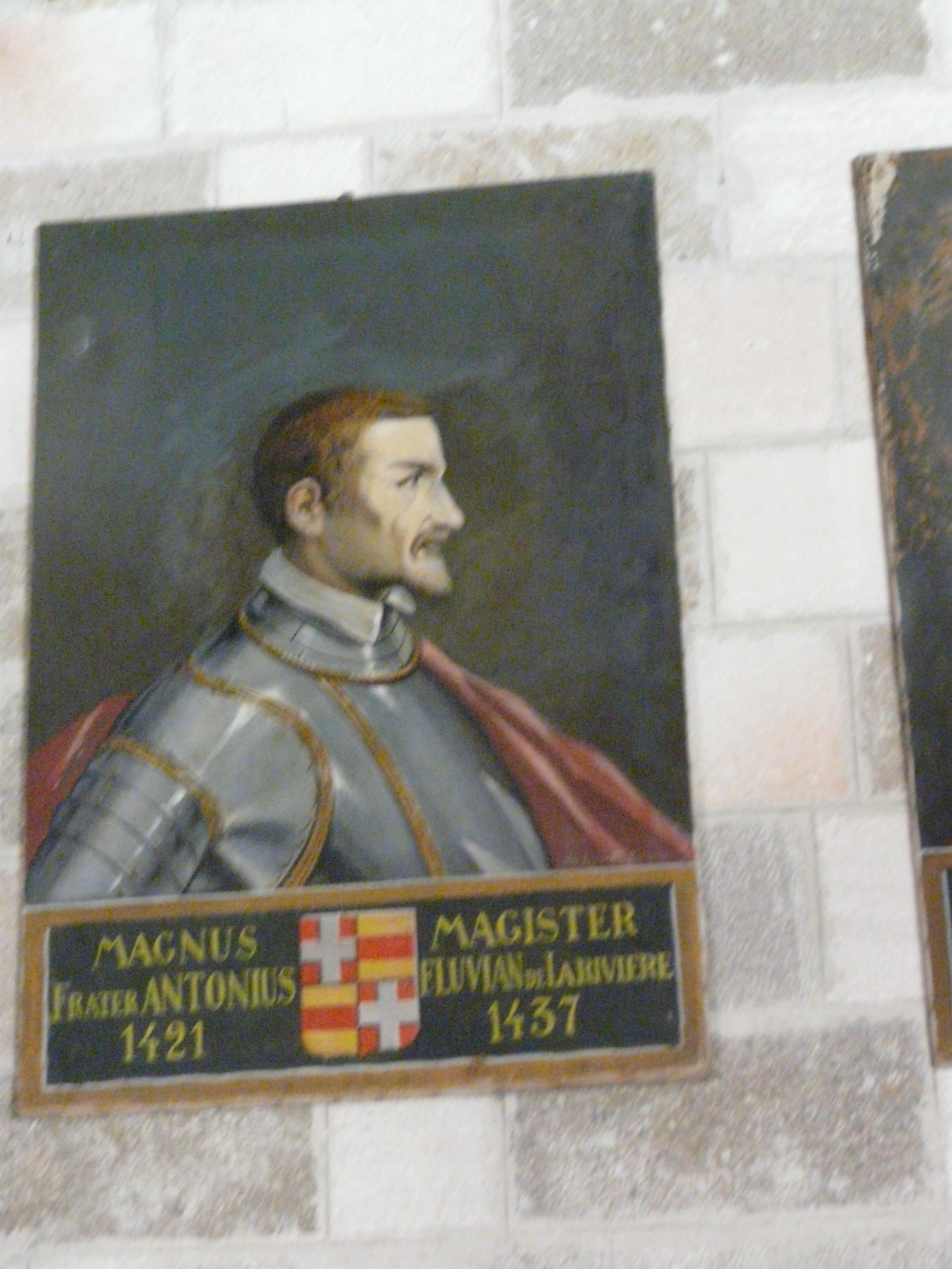 Palace of the Grand Master of the Knights of Rhodes